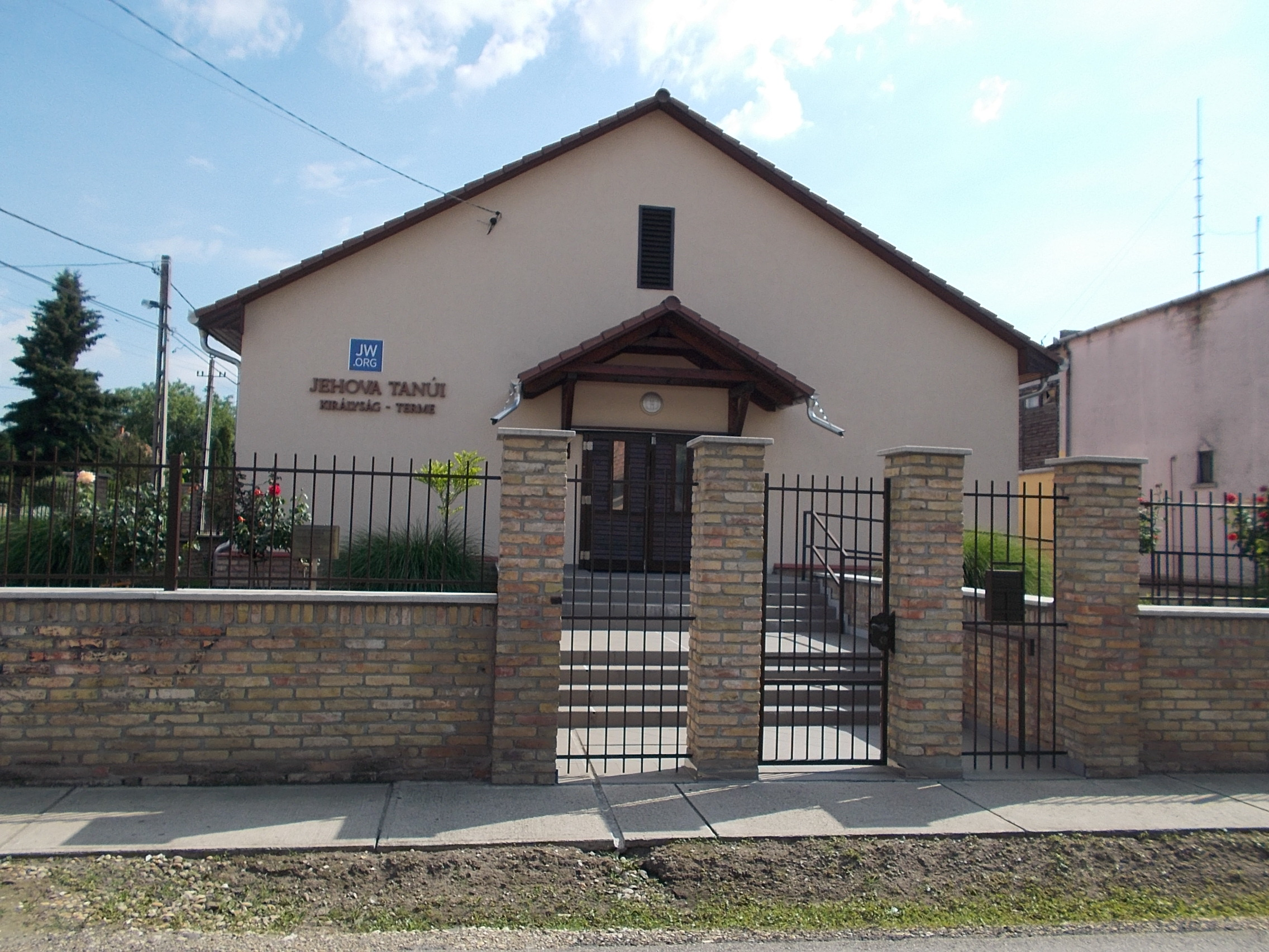 Jehovah's Witnesses Kingdom Hall. - Tompa Street, Gyömrő, Pest County, Hungary.